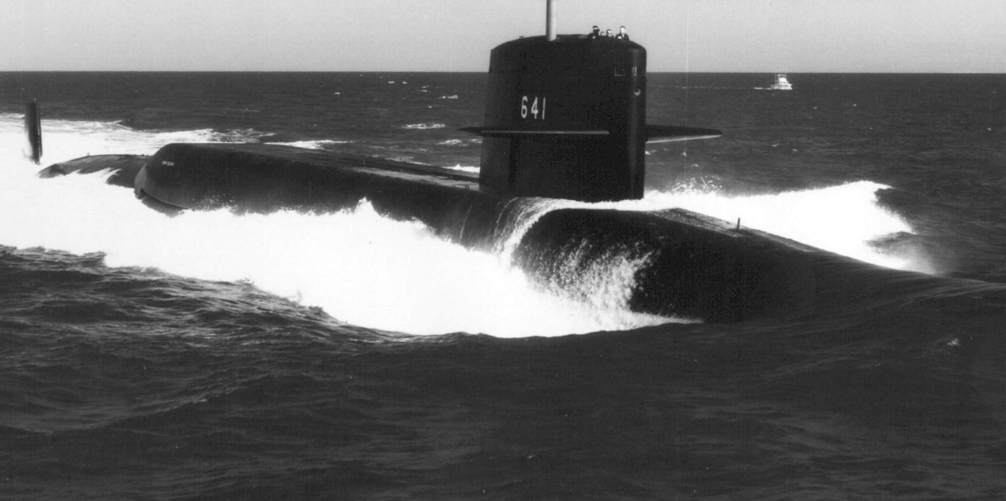 SSBN 641 returning to refit site